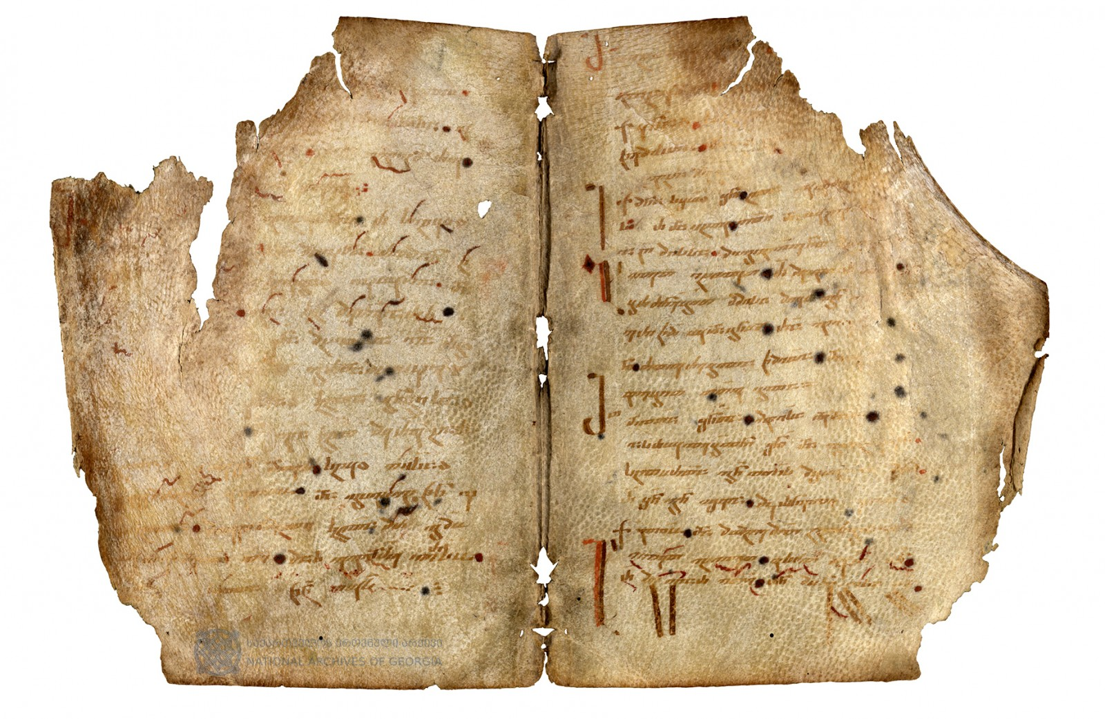 Georgian manuscript with musical notes